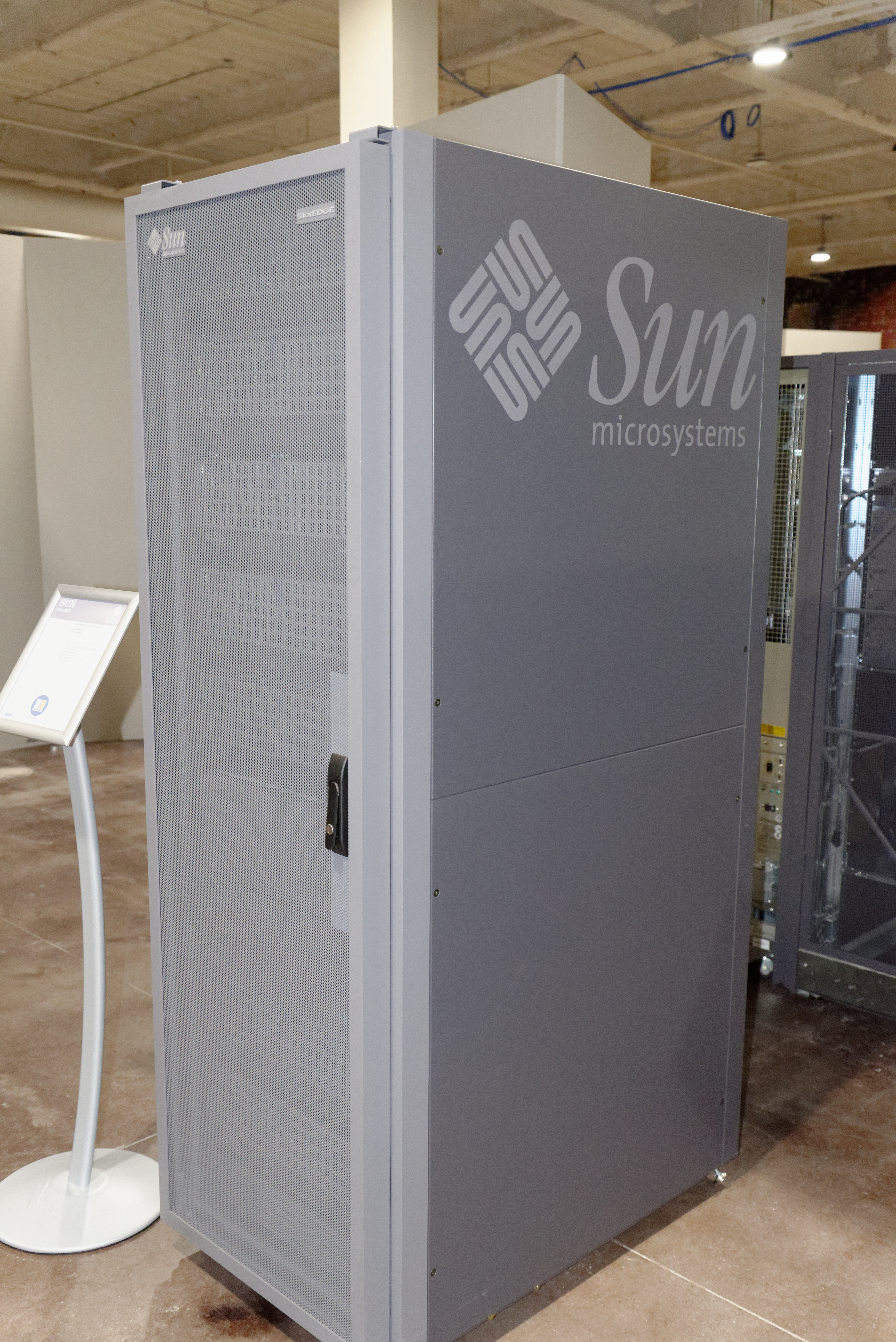 Sun Microsysterms computer